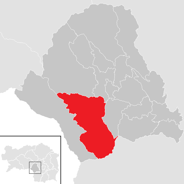 district Voitsberg